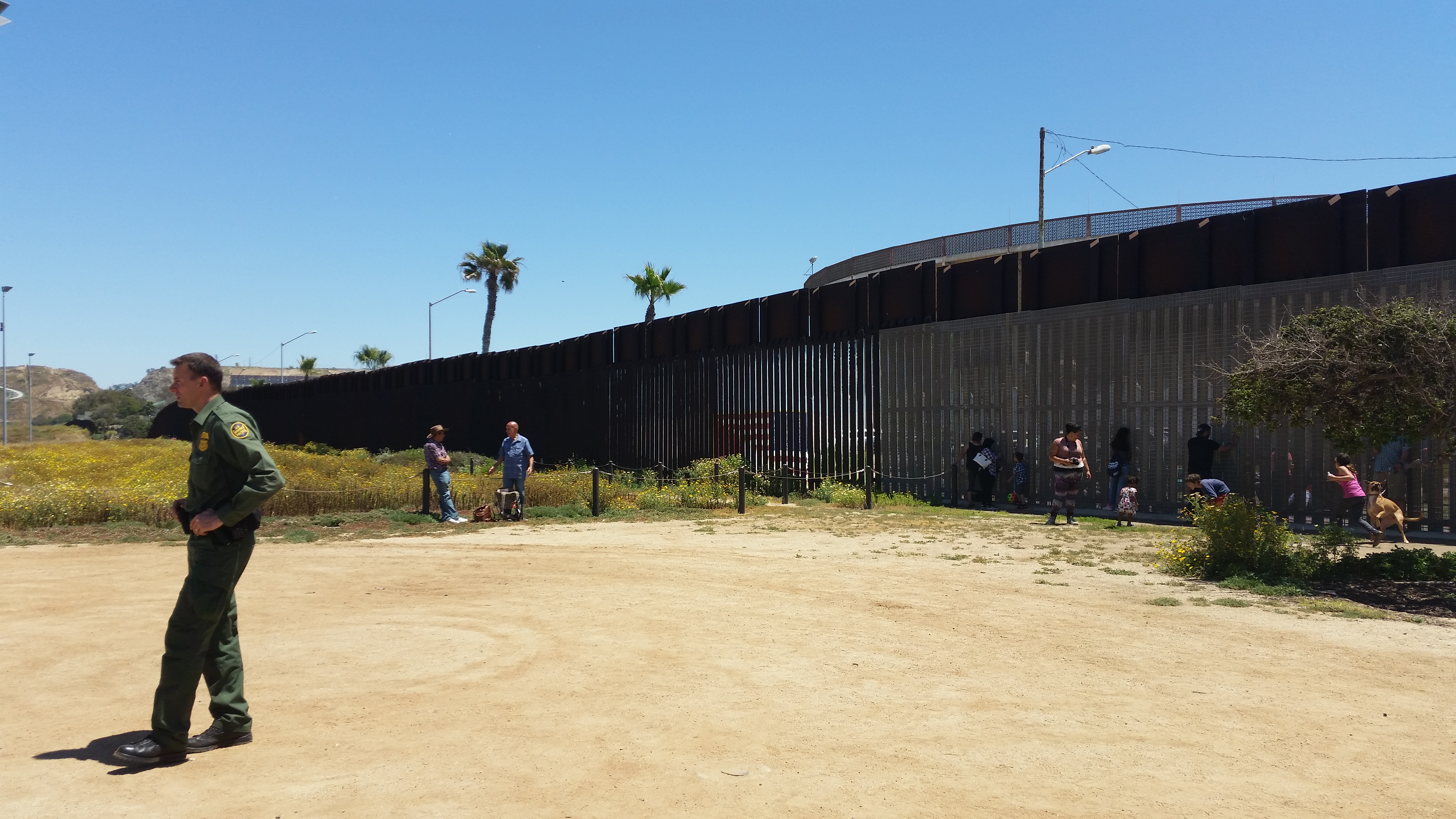 Art is seen through the metal bars which make up the US-Mexico barrier at International Friendship Park